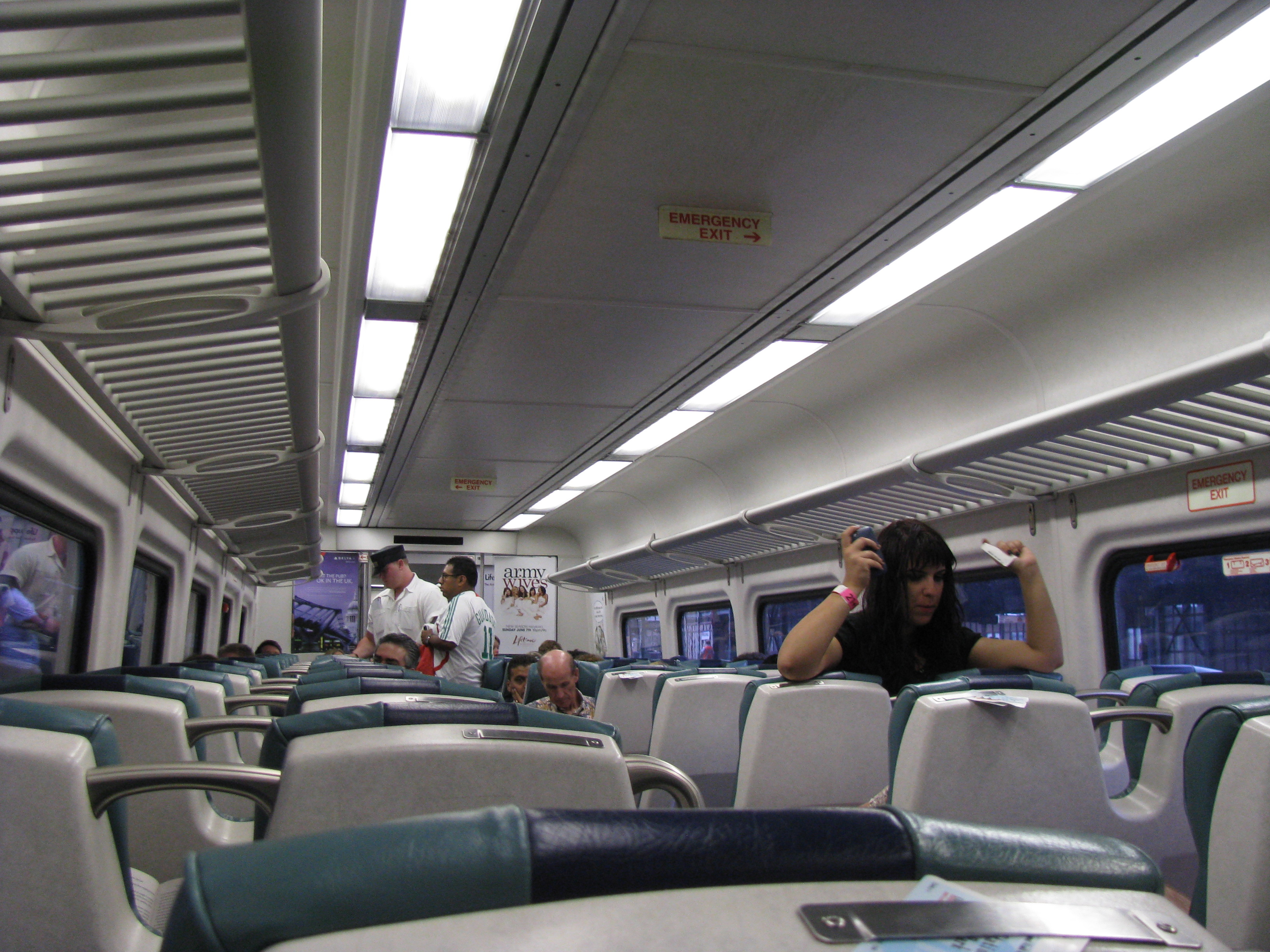 Interior of a Long Island Railroad train servicing the Ronkonkoma line.